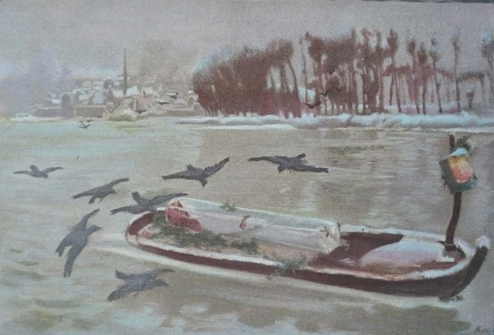 « La Princesse sous verre » : First illustrated printing by André Cahard of Jean Lorrain's Tales, Princesses d’ivoire et d’ivresse, Paris, Ed. de la Revue Illustrée / Tallandier, 1896.